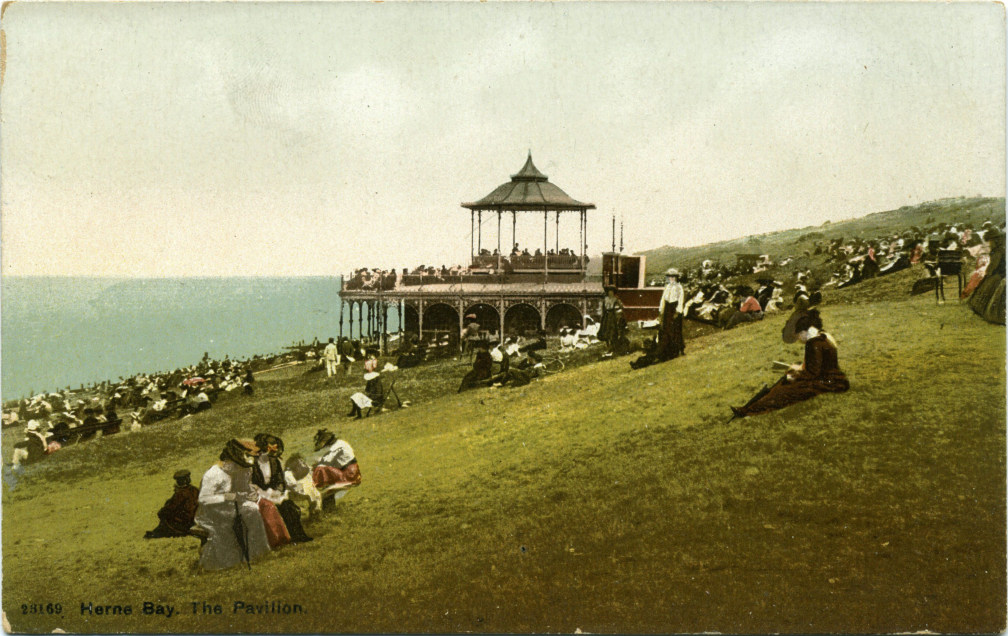 Coloured postcard photograph of the King's Hall, Herne Bay, Kent, England. It was called the Pavilion before it was extended underground and re-named in 1913. Points of interest There is a band playing in the bandstand. The bandstand no longer exists on top of King's Hall. There is a bicycle lying on the grass in the centre of the picture, and a Victorian-style baby carriage on the right.